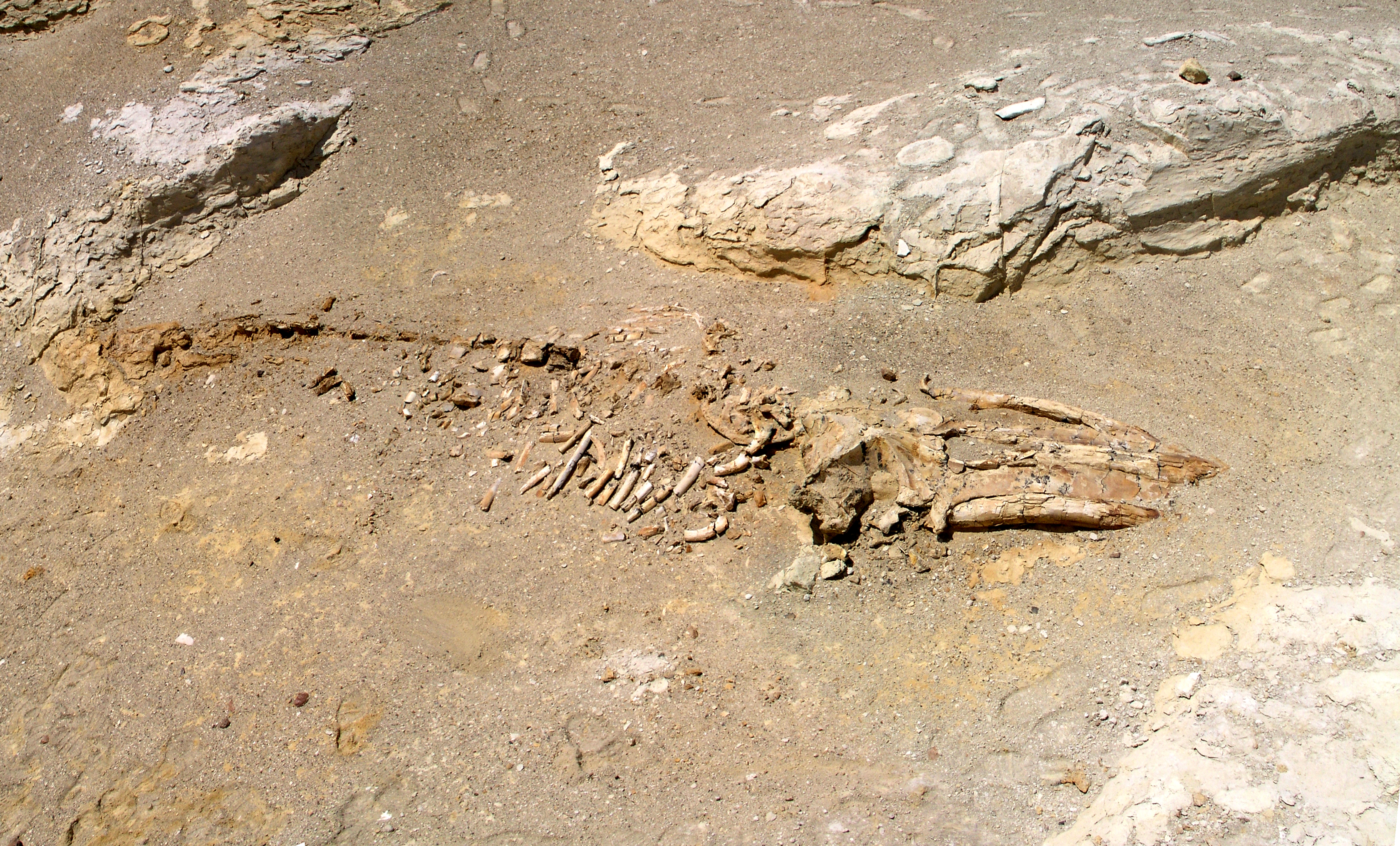 Skeleton of whale (Miocene) in the Ica Desert, Peru.